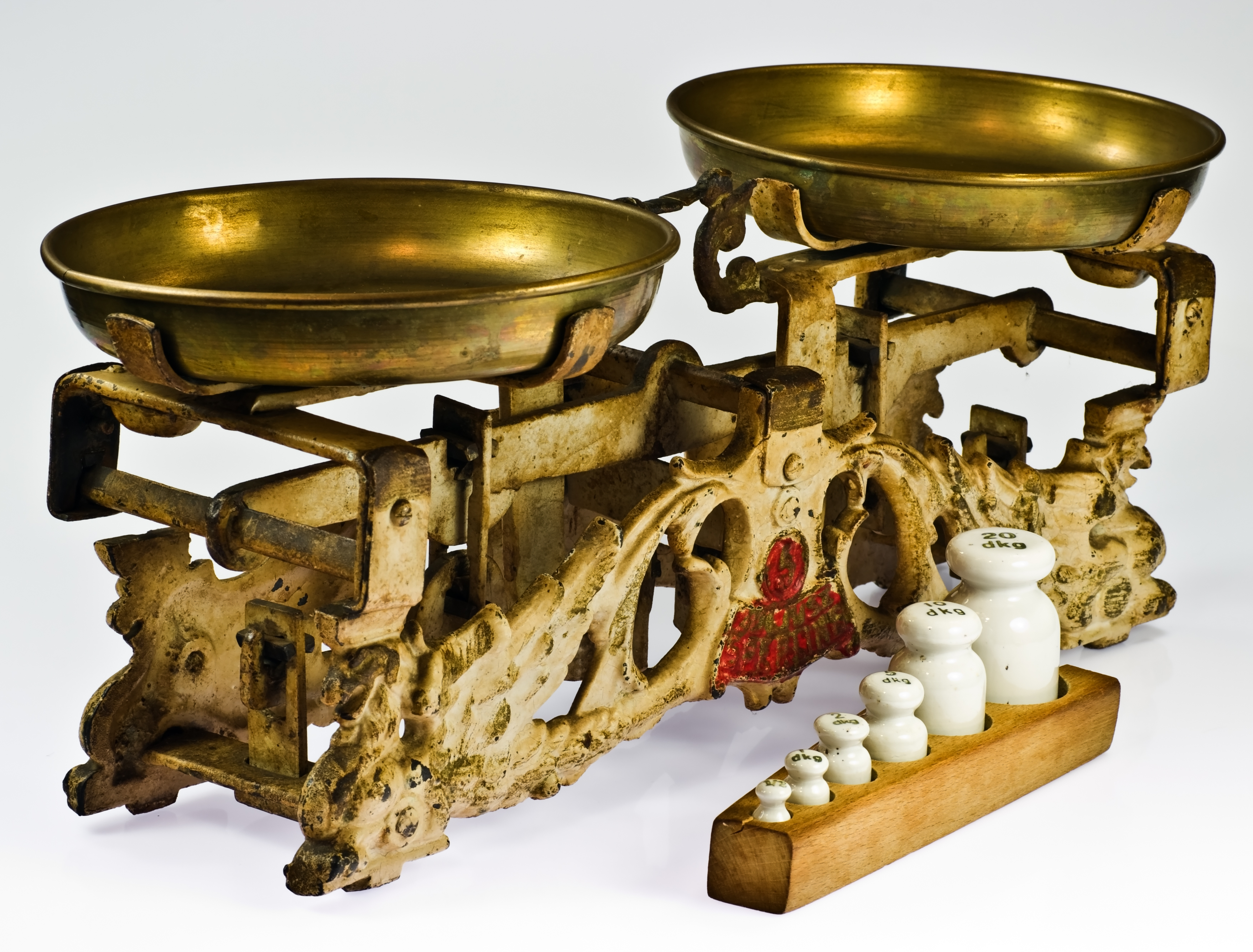 Old two pan balance